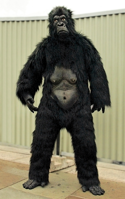 Man wearing a gorilla suit.